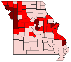 A map of the counties won by each candidate in the Missouri Republican primary.